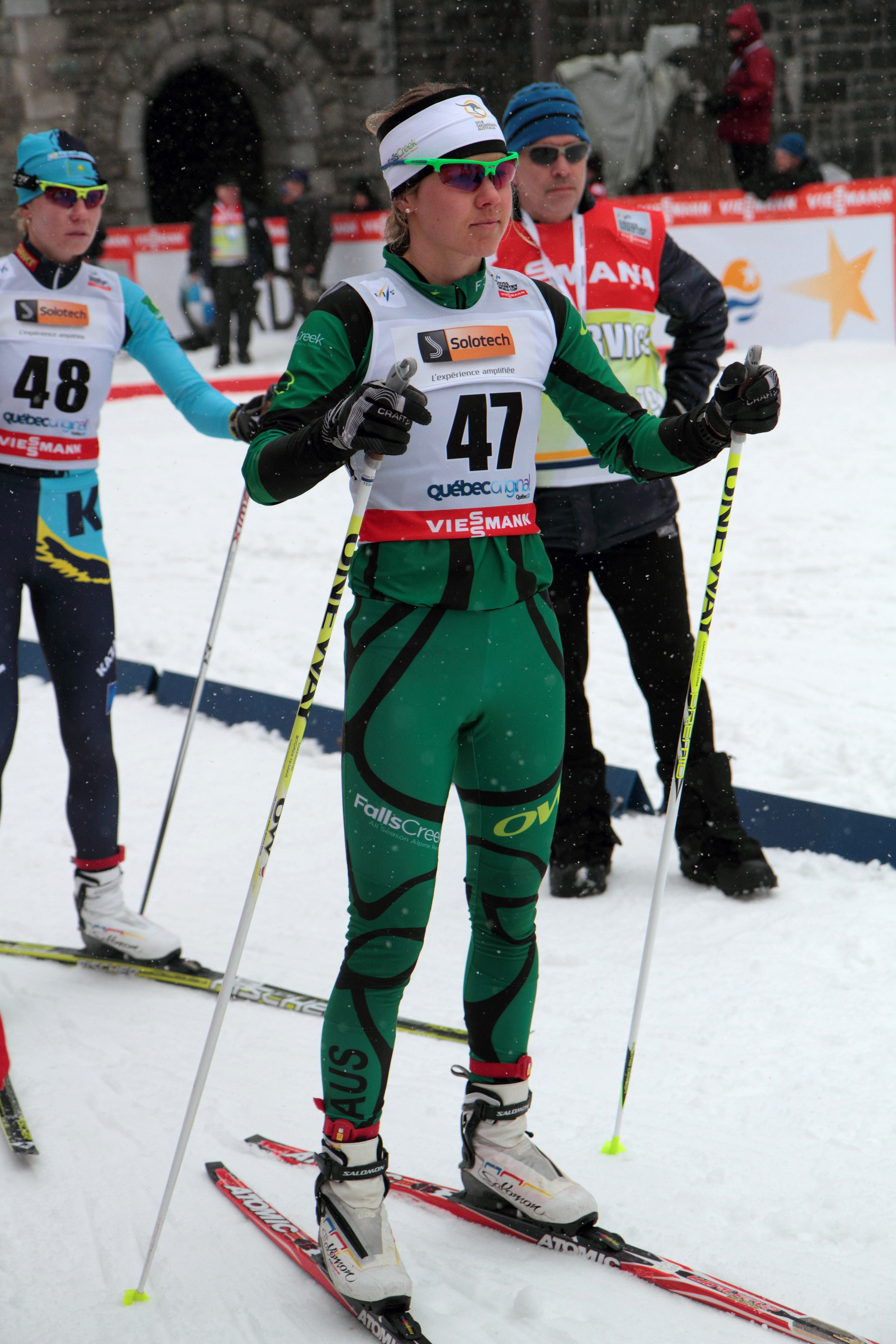 Esther Bottomley, FIS Cross-Country World Cup 2012, Quebec, Canada.